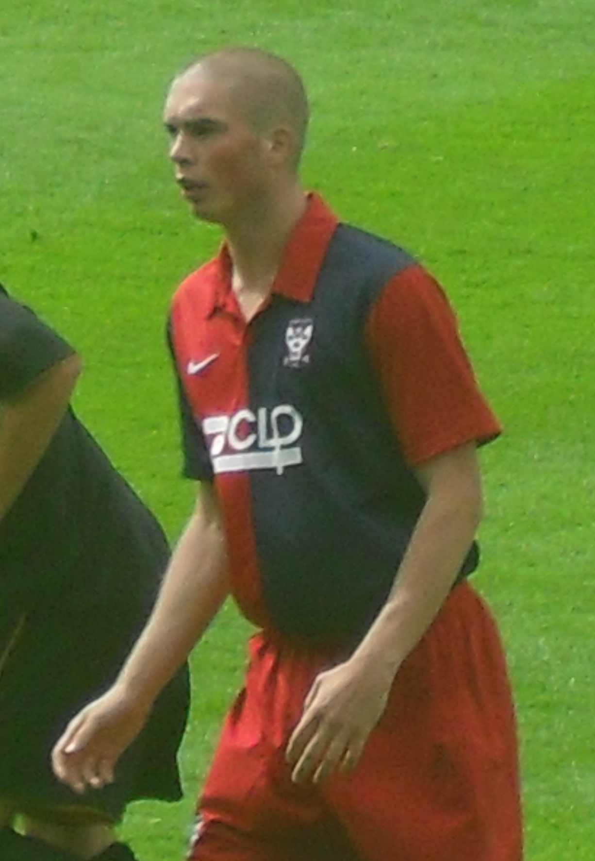 Richard Brodie playing for York City against Bradford City at Bootham Crescent, York on 18 July 2009